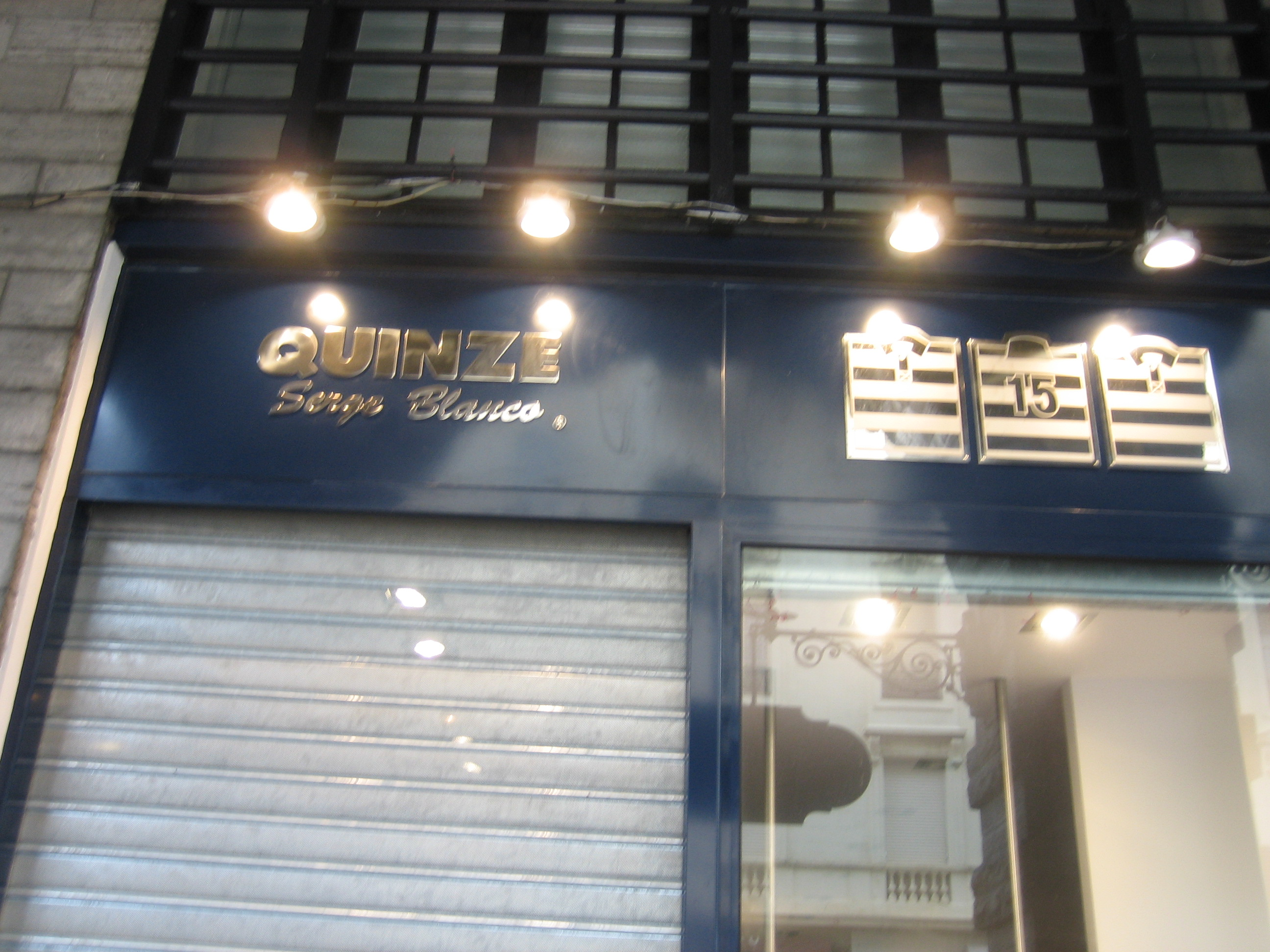 boutique de Serge Blanco - Former rugby superstar Serge Blanco seems to own half of the town. Biarritz (France).